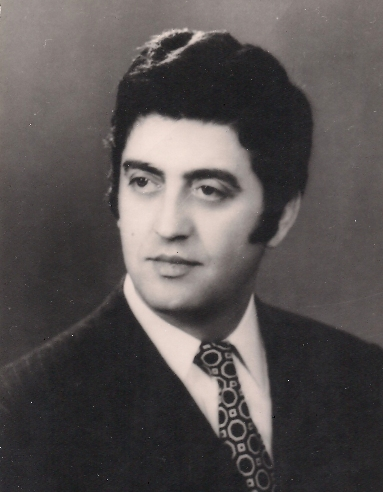 Tenor Pietro Fongaro